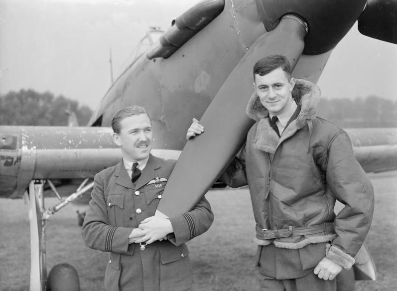 Royal Air Force Fighter Command, 1939-1945. Flight-Lieutenant M H Brown and Pilot Officer Chatham of No. 1 Squadron RAF standing by the nose of a Hawker Hurricane Mark I at Wittering, Huntingdonshire. Mark Henry Brown was the first Canadian fighter pilot of the war to become an 'ace'. He had, by the time this photograph was taken, shot down at least 18 enemy aircraft over France and Great Britain, and in the following month, was appointed Commanding Officer of No. 1 Squadron. One year later, flying from Malta, he was killed in a fighter sweep over Sicily.